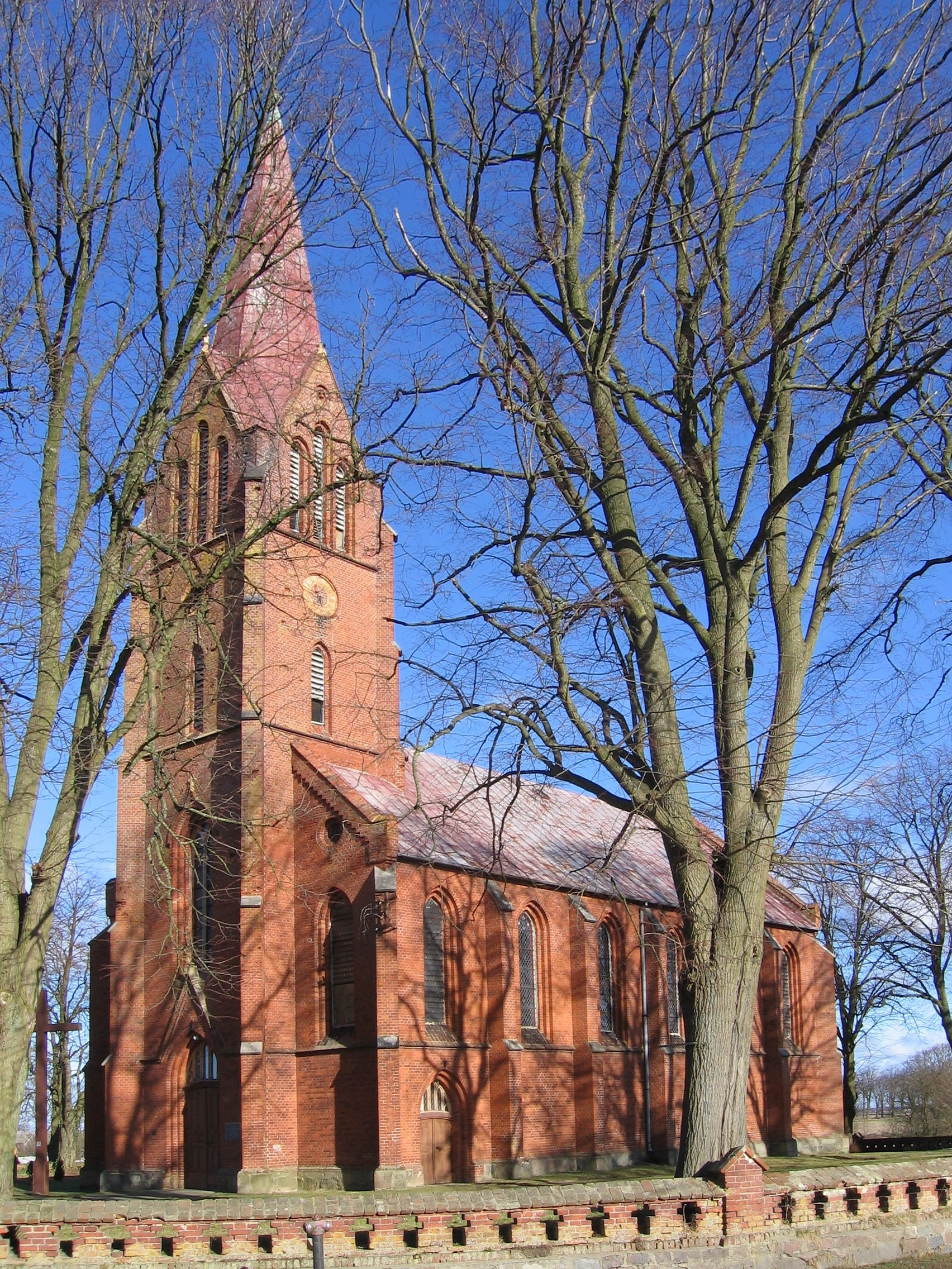 The Holy Cross Church in Karcino, Poland